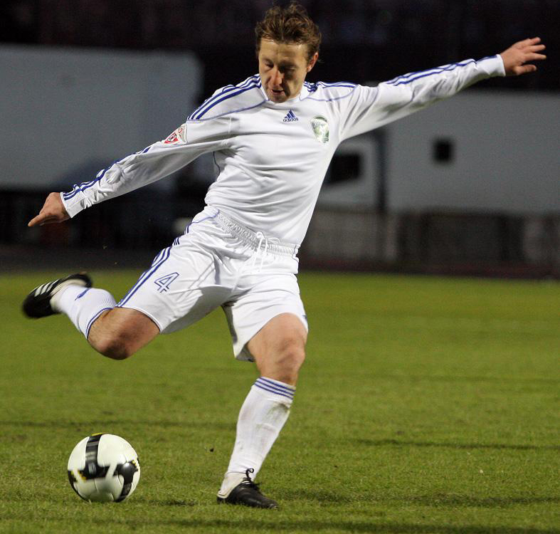 Vasili Yanotovsky with FC Tom Tomsk